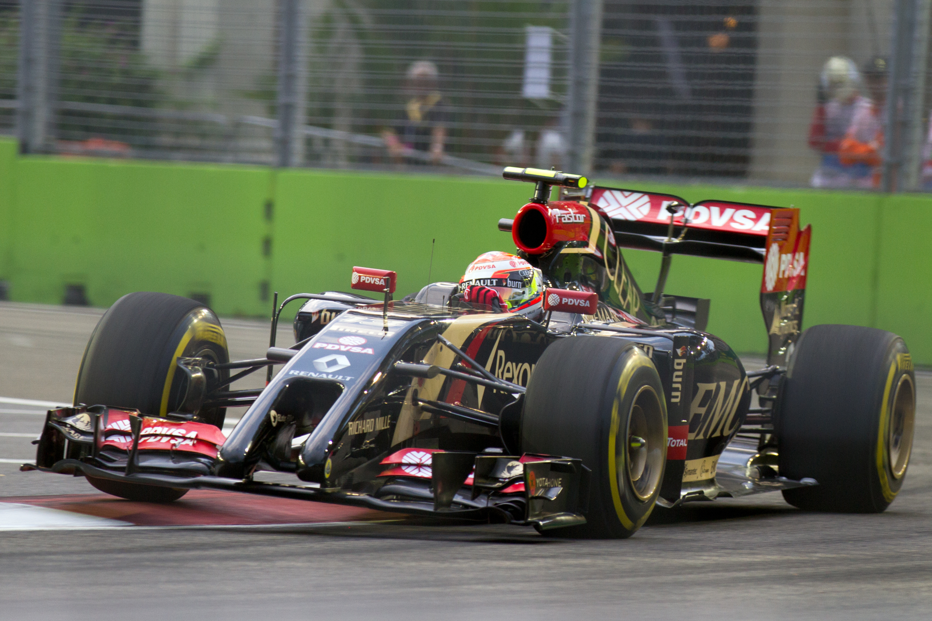 Formula One 2014 Rd.14 Singapore GP: Pastor Maldonado (Lotus)